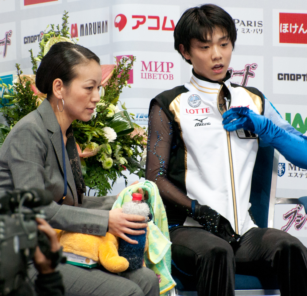 Hanyu with a coach (left) at the 2011 Cup of Russia, short program.